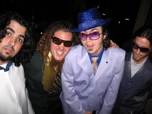 A candid photo of the band at the San Diego Music Awards in 2005